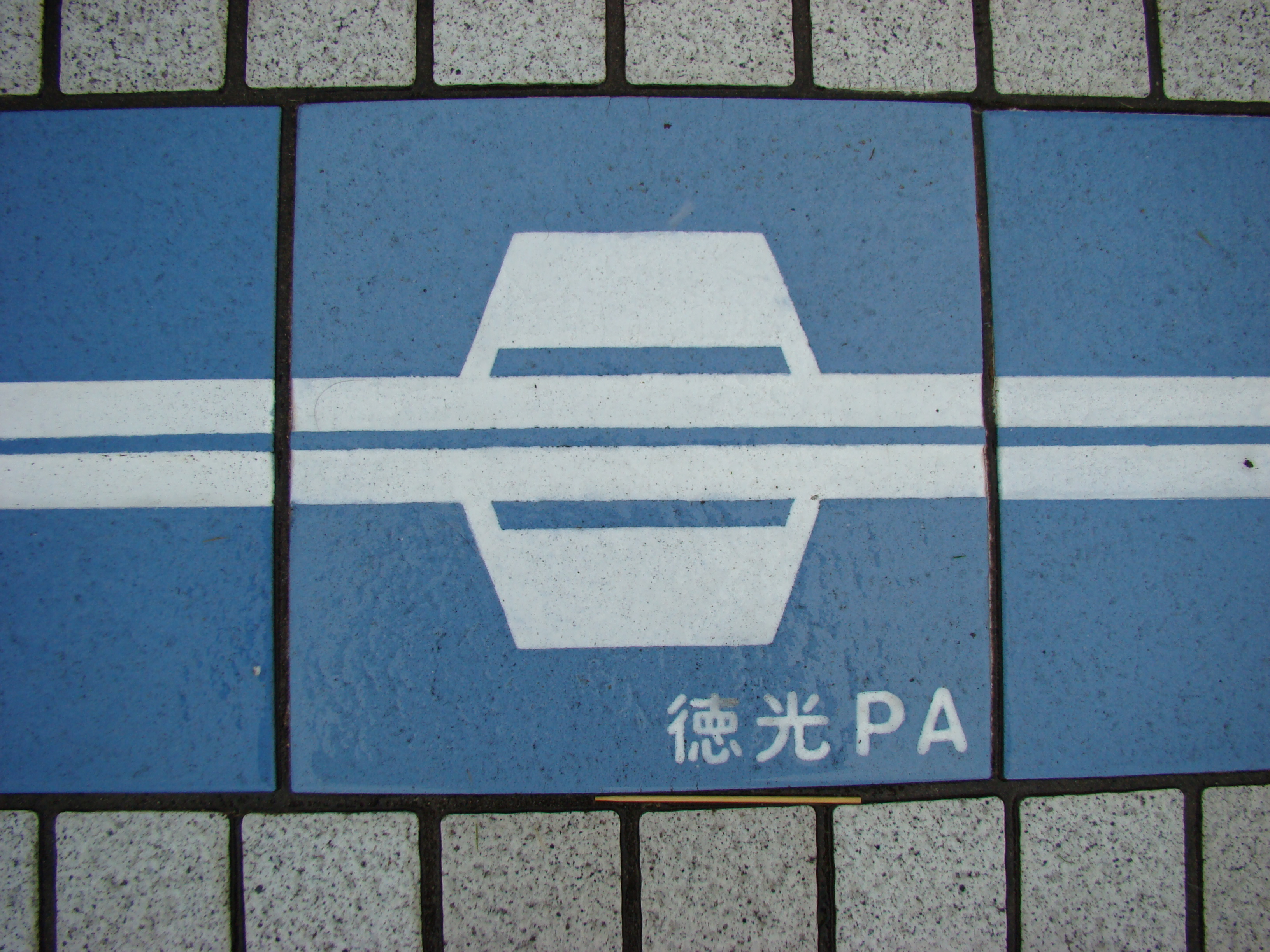 Tile which shows the shape of Tokumitsu Parking Area on the Hokuriku Expressway, installed at Nadachi Tanihama Service Area in Chayagahara, Joetsu City, Niigata Prefecture, Japan